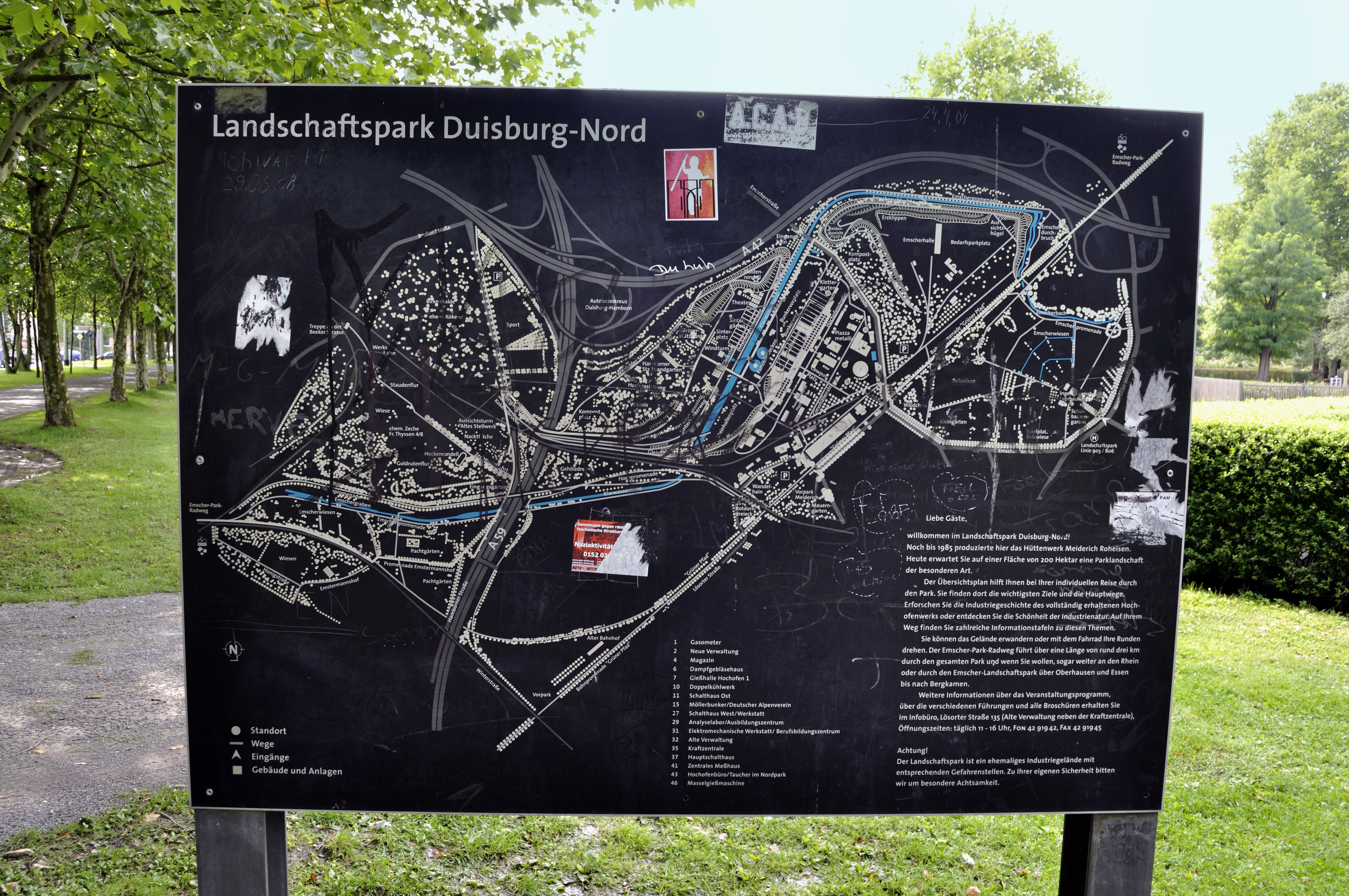 Picture taken in Duisburg while summer meetup.